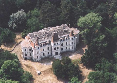 Csobánka, Hungary, aerial photography